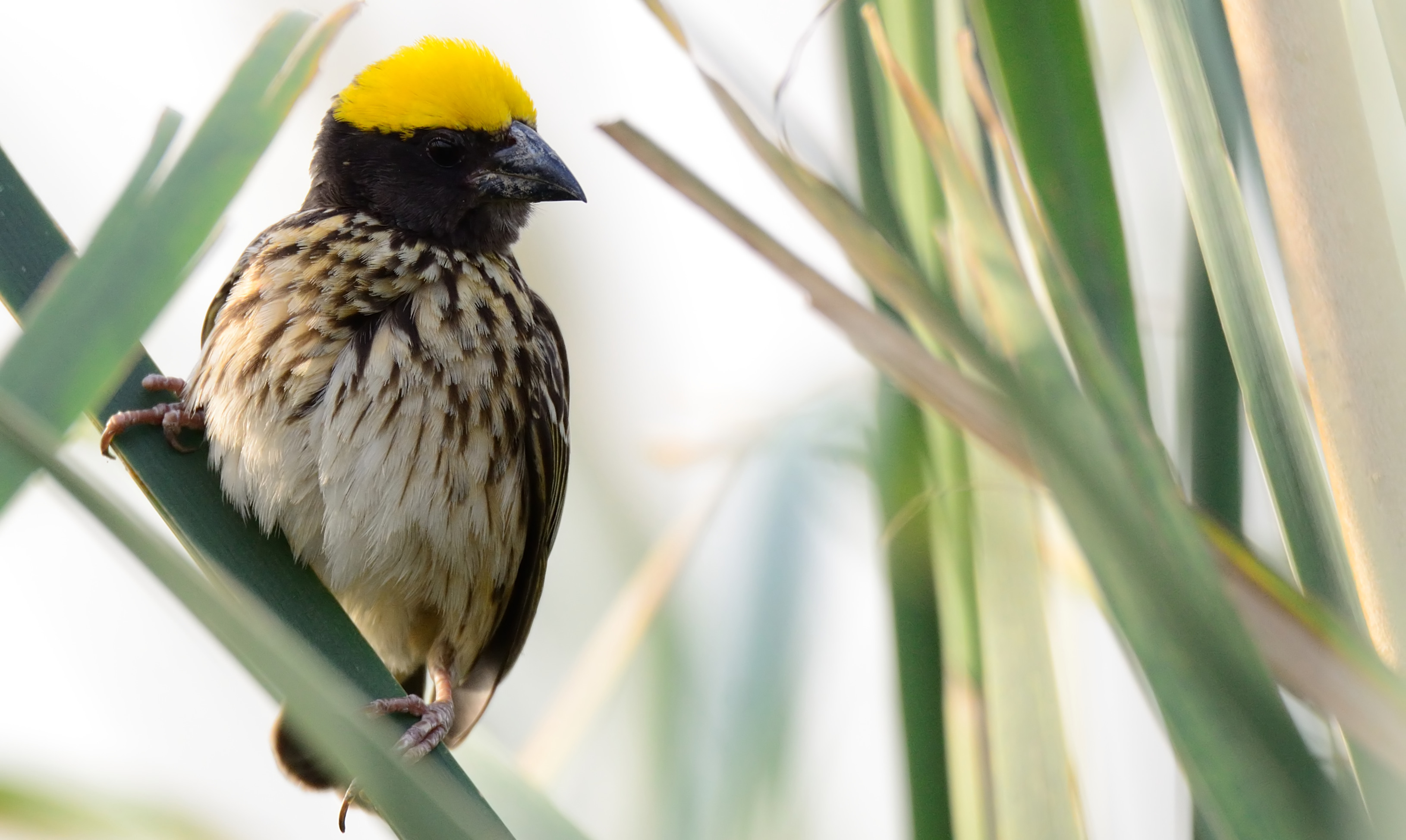 Streaked Weaver (Ploceus manyar) male in breeding plumage from Basai wetlands, Haryana, India.